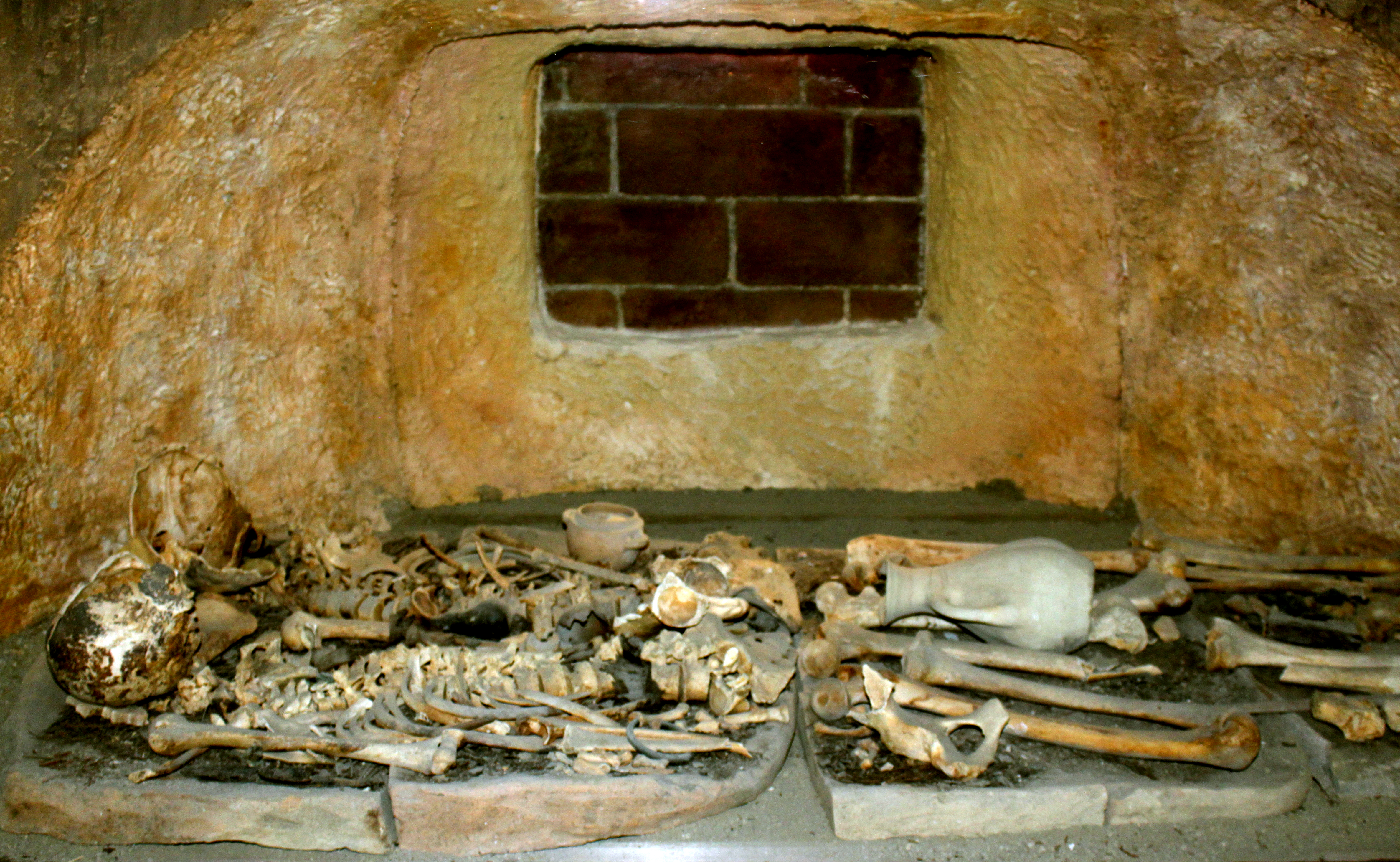 Catacomb burial from Mingachevir, Azerbaijan